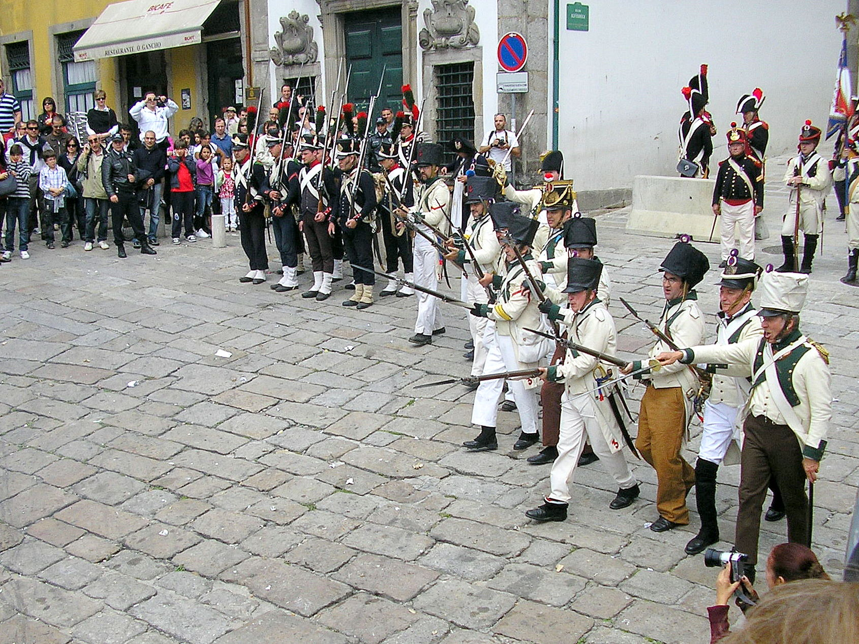 Battle of Porto (1809) reenactment in Porto city, Portugal.(2009)